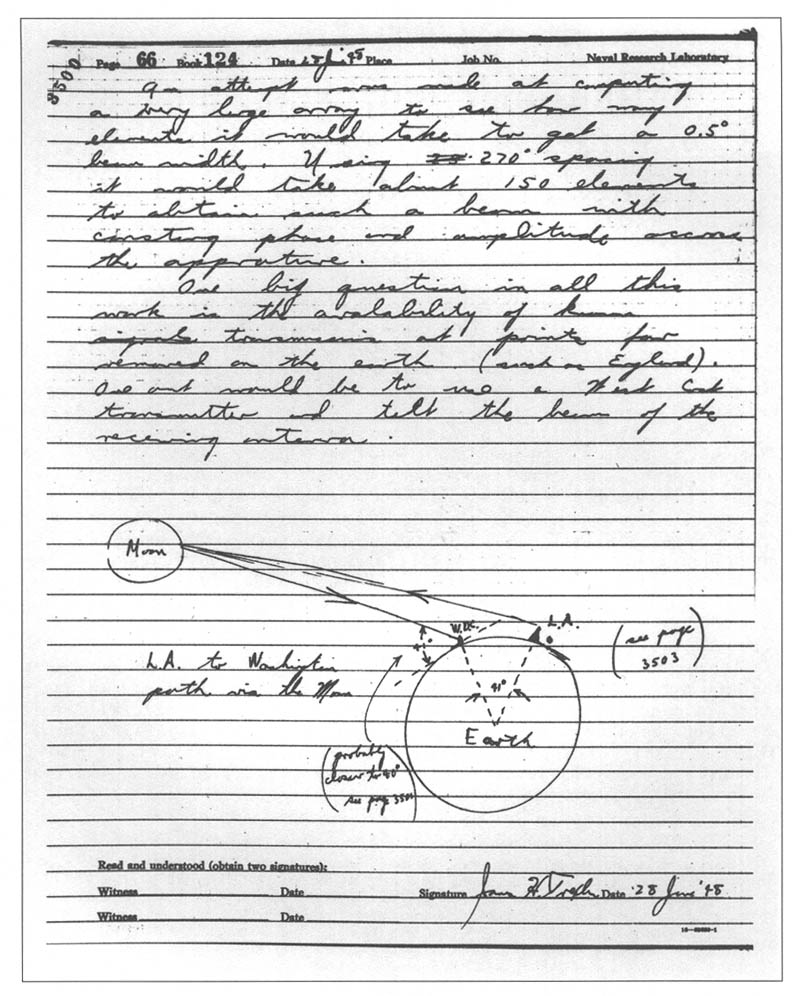 Notebook entry of James H. Trexler, dated 28 January 1945, showing calculations for a long-distance communications link between Los Angeles, California, and Washington, D.C., via the Moon